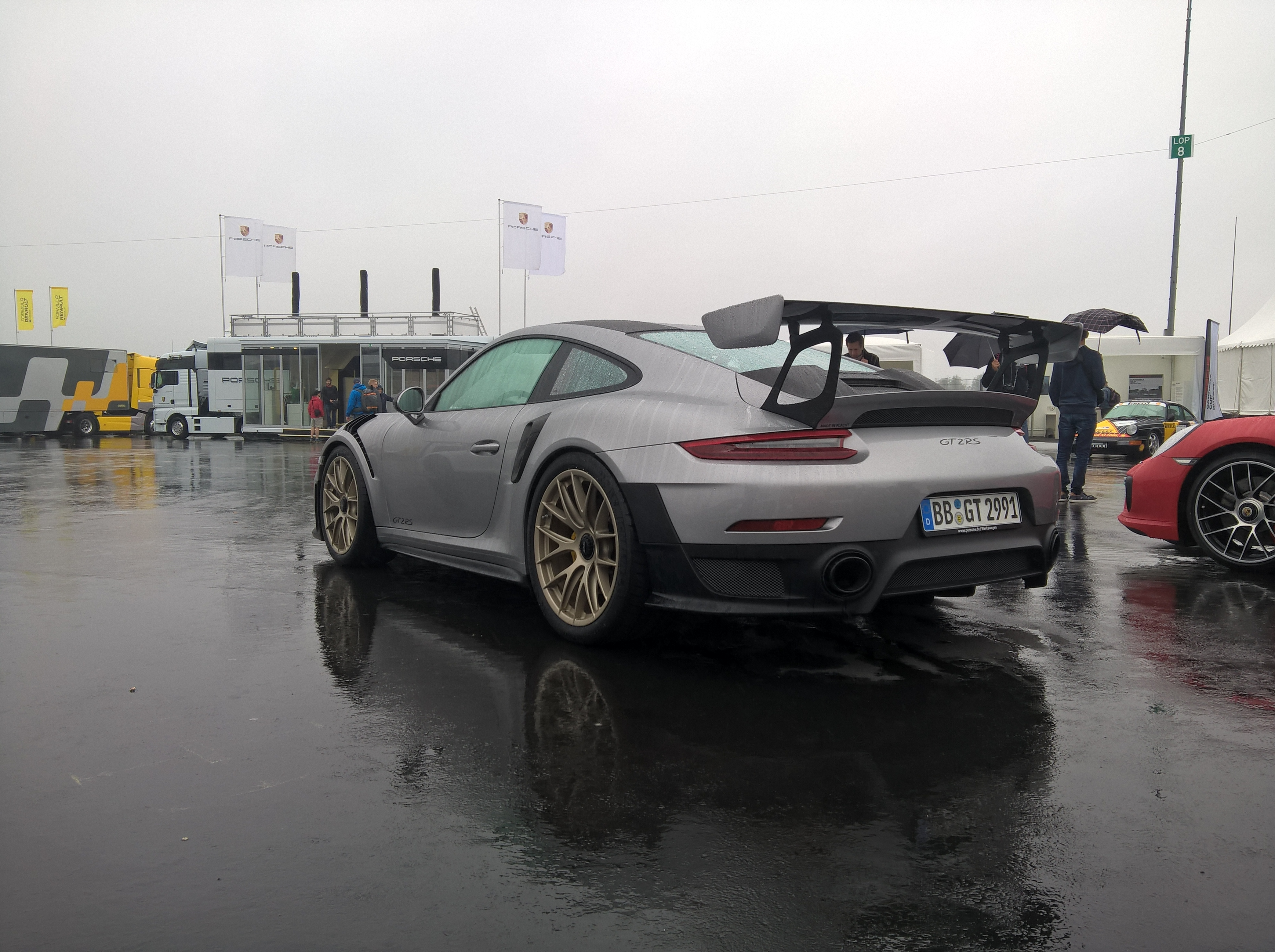 Porsche 911 GT2 RS at FIA WEC 6 Hours of Nürburgring.